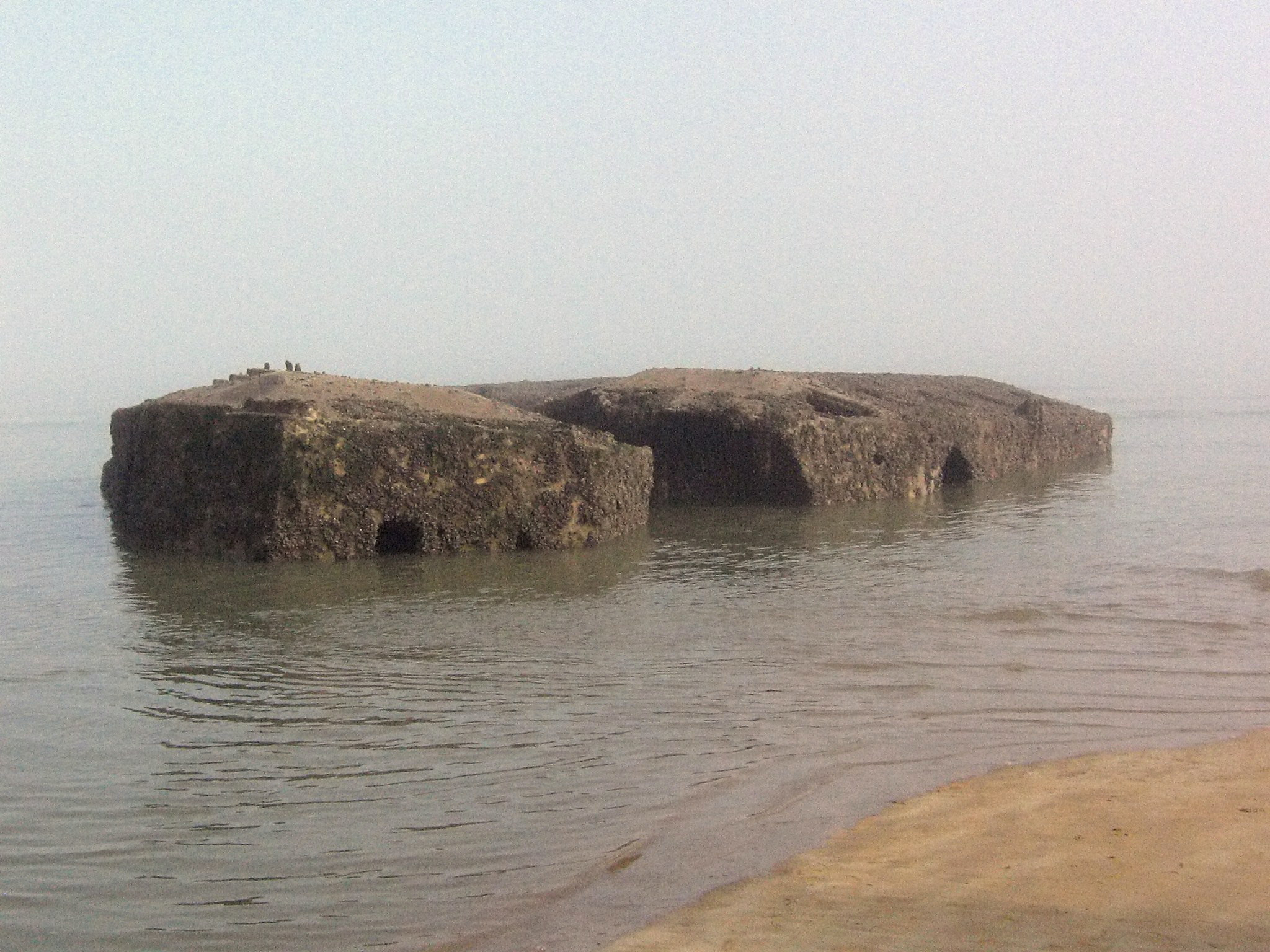 This is an image that I took of a Mulberry Harbour on Gold Beach. The picture was taken in April, 2007, and is one of the only remnants of the Mulberry Harbours used on D-Day.